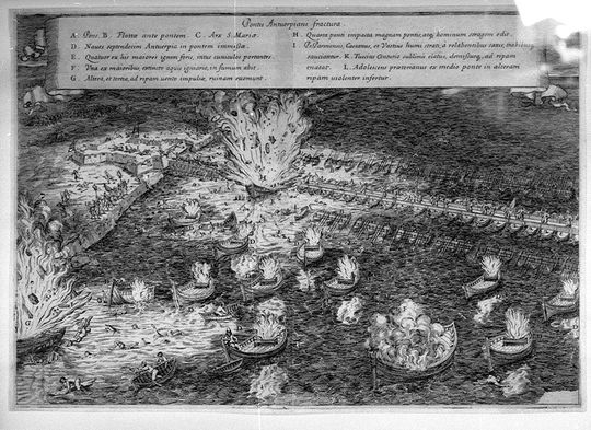 An engraving entitled "Pontis Antwerpiani fractura" showing the blowing up of Parma's pontoon bridge, used in the siege of Antwerp in 1585. Print from a book by Famiano Strada.